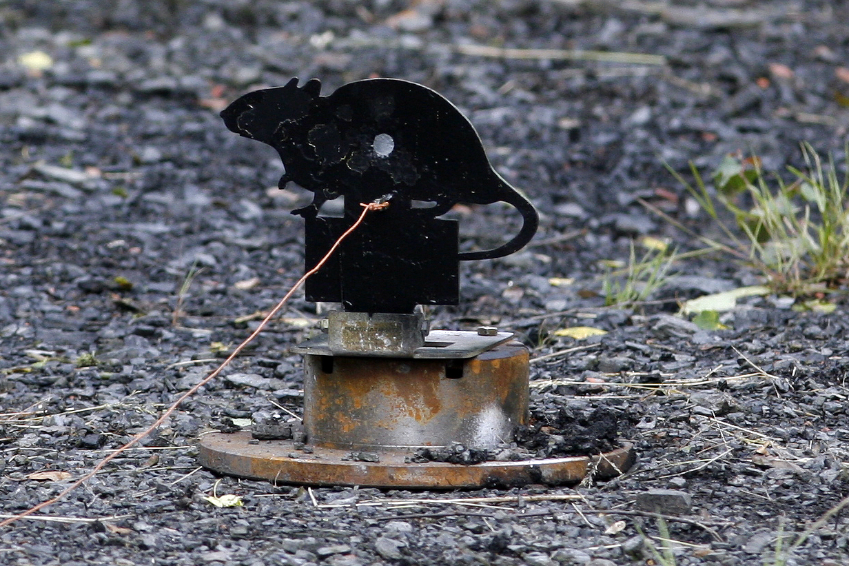 A Hunter Field Target (HFT) target in the form of a Rat.